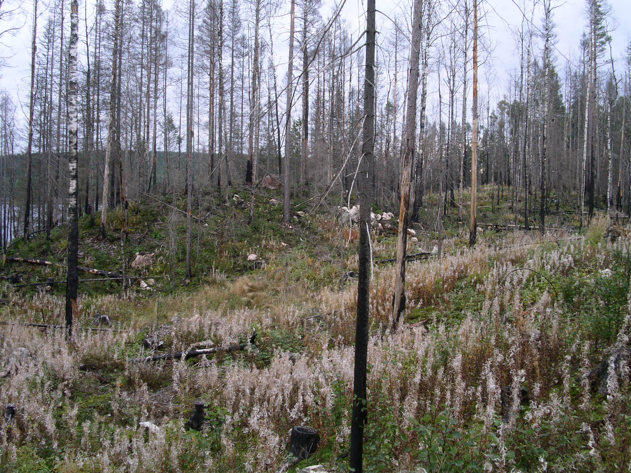 A wild fire area, N Hörken, Ljusnarsberg, Sweden. Wildfire area on a ridge between a road and the lake Norra Hörken. Autumn two years after the fire.